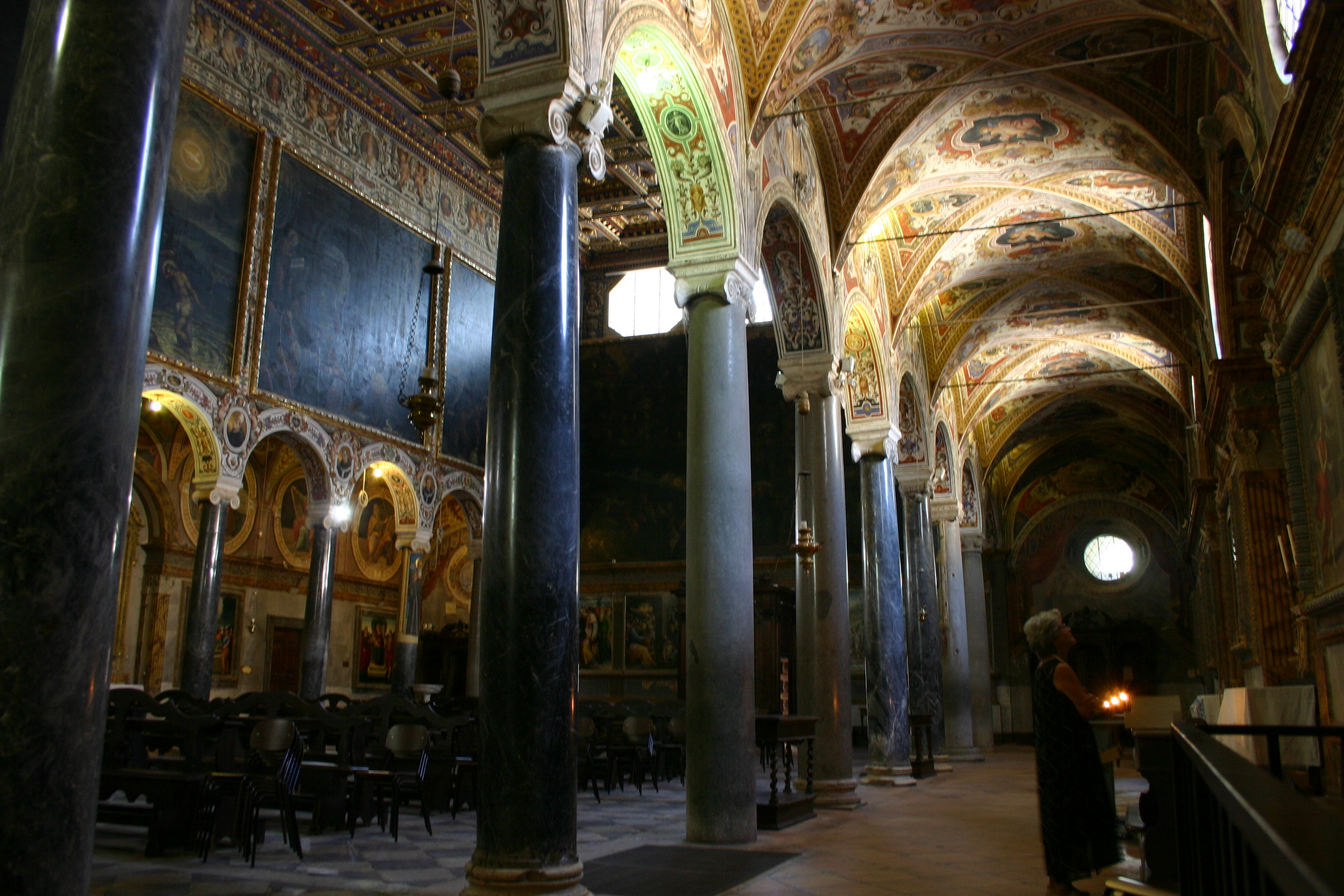 Perugia, Interior of the San Pietro church. Picture by Giovanni Dall'Orto, August 7, 2006.